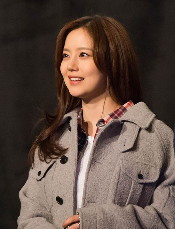 Moon Chae-won at the premiere for "Love Forecast", 17 January 2015